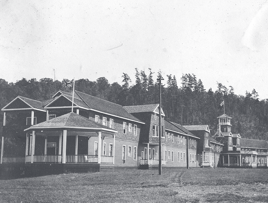 A view of the Wawa Hotel on Lake of Bays, as seen from the beach.